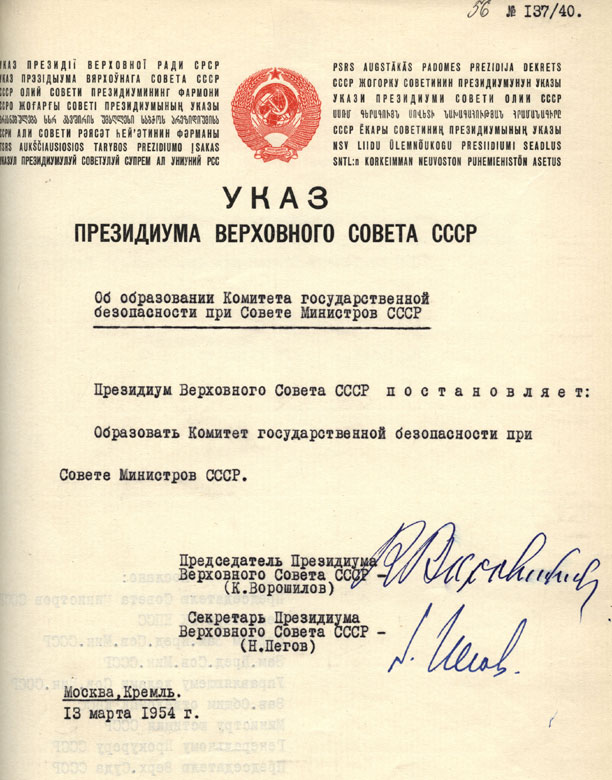 Soviet law that states KGB to happen.